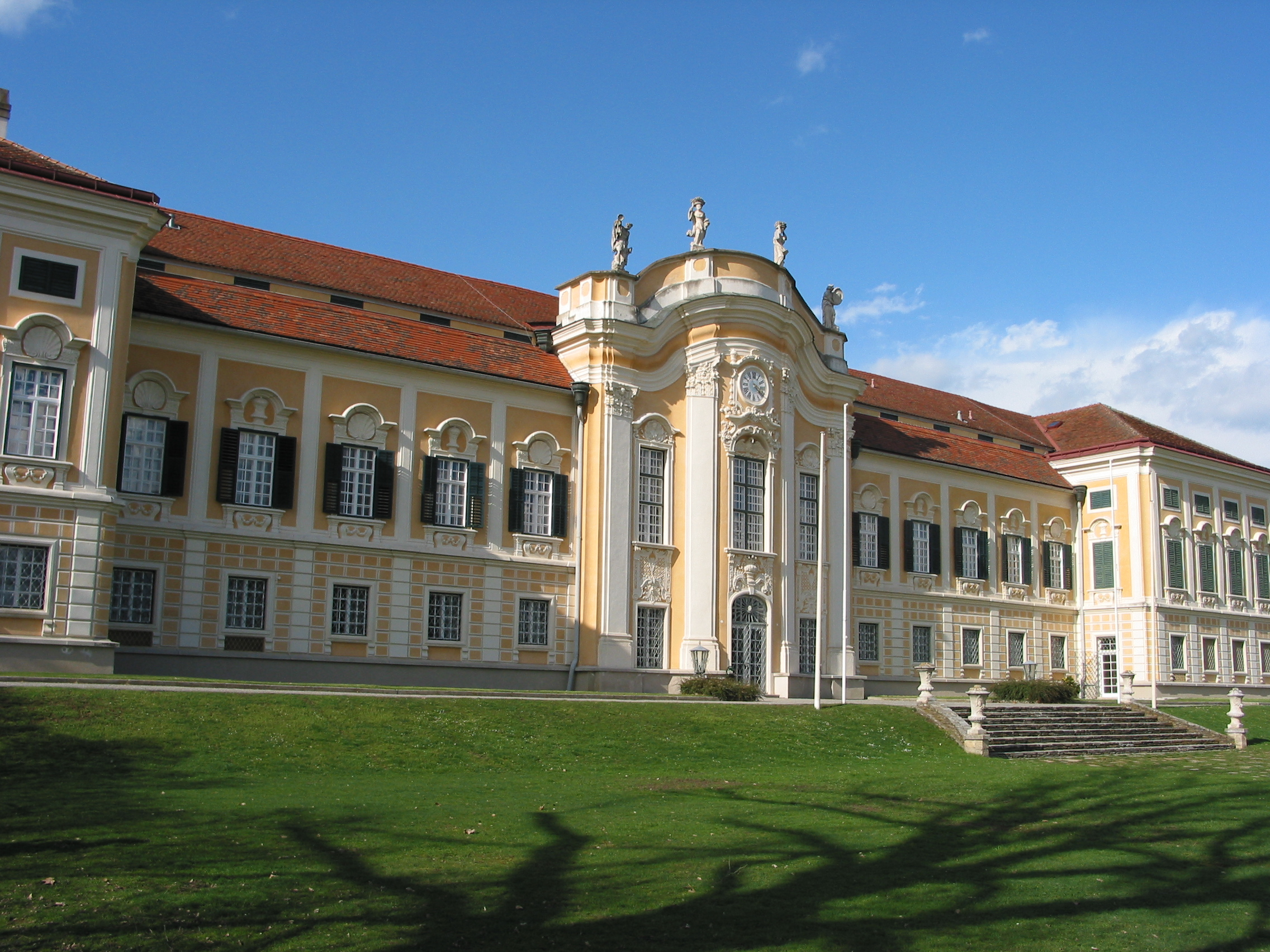 Schloss Schielleiten